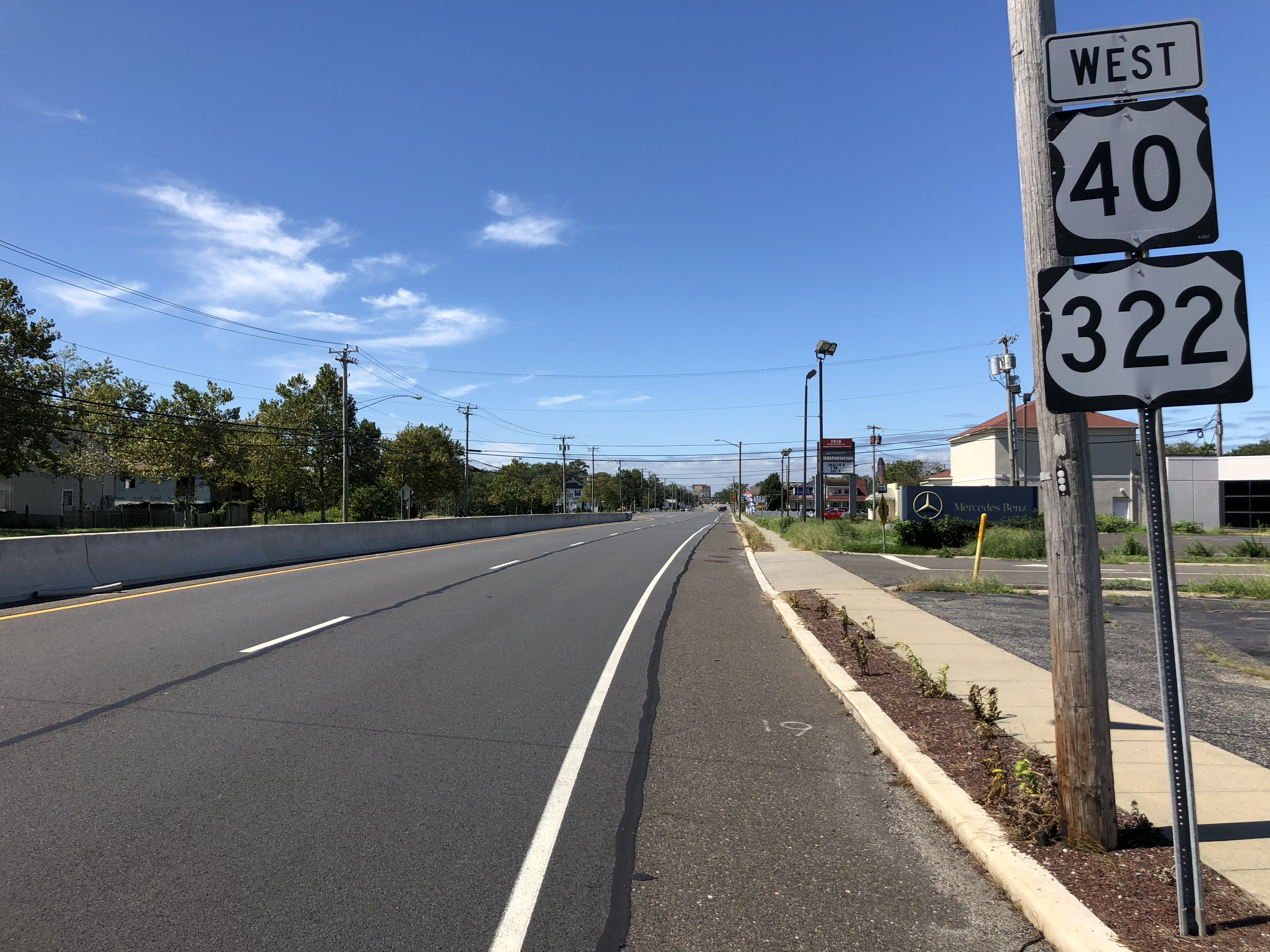 View west along U.S. Route 40 and U.S. Route 322 (Black Horse Pike) at Florence Avenue in Egg Harbor Township, Atlantic County, New Jersey